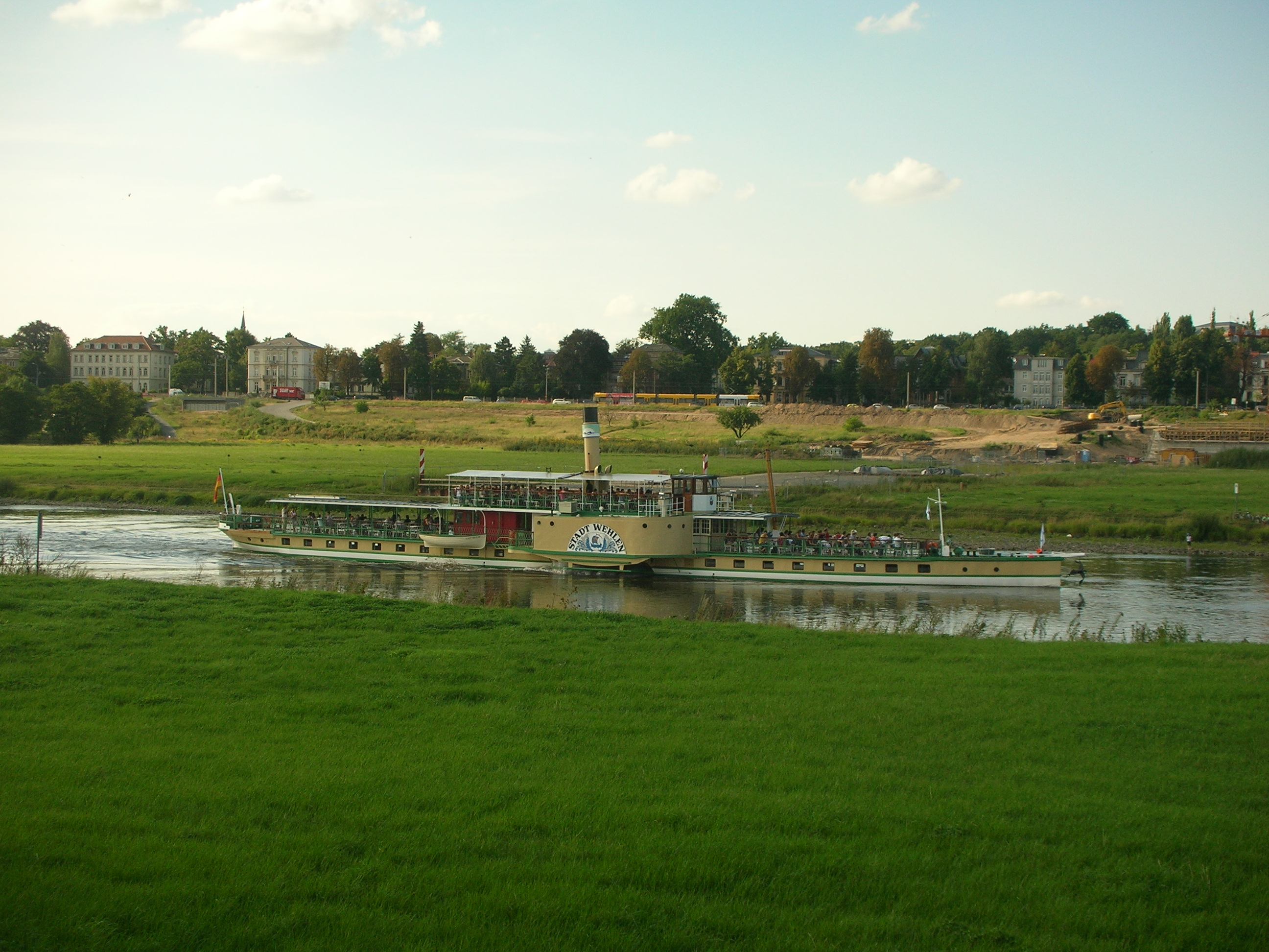 Steamboat "Stadt Wehlen" on the river Elbe in Dresden, when passing the building site of the Waldschlößchenbrücke at the world heritage site "Dresdner Elbtal" (Dresden Elbe Valley)